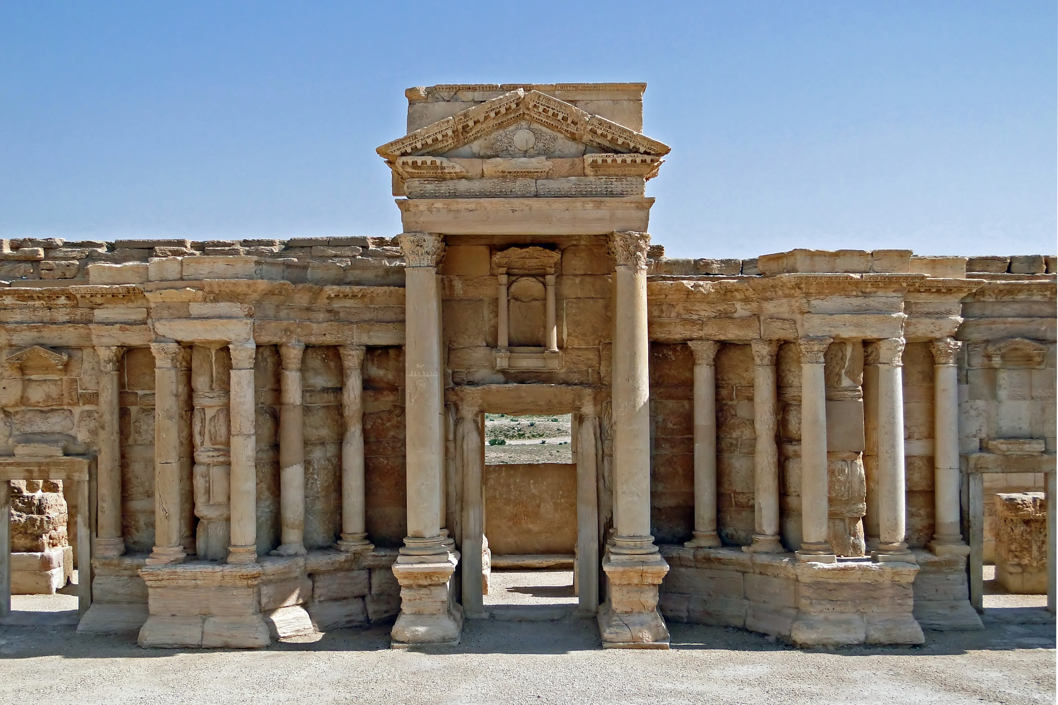 The postscaenium wall of the Roman theatre of Palmyra, Syria